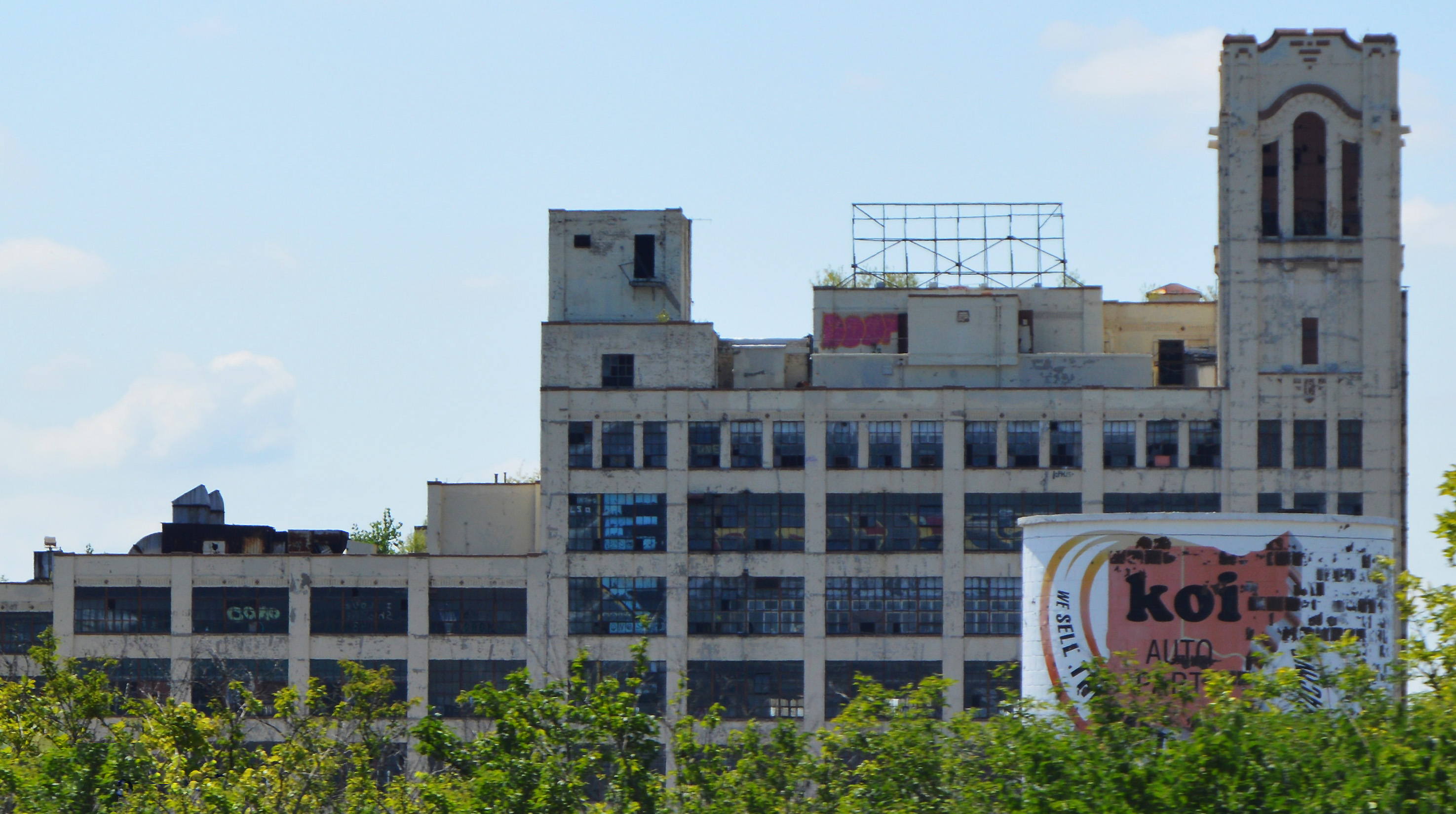 Front and eastern side of the Crosley Building, located at 1329-1333 Arlington Street in Cincinnati, Ohio, United States, seen looking south from Interstate 75. Built in 1930 and once the home of Powel Crosley's business enterprises (ranging from automobiles to radio station WLW, radio manufacturing to refrigerator manufacturing), it is listed on the National Register of Historic Places.